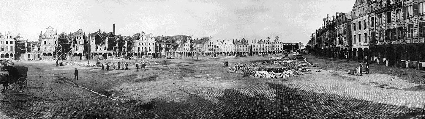 The Town Square, Arras, France. February, 1919. This panorama was taken by Fred Schutz of Washington, DC, who was commissioned after World War I to photograph some of the war`s destruction and impact, especially in northern France. The Still Picture Branch of the U.S. National Archives and Records Administration has approximately 30 of these views in its holdings.